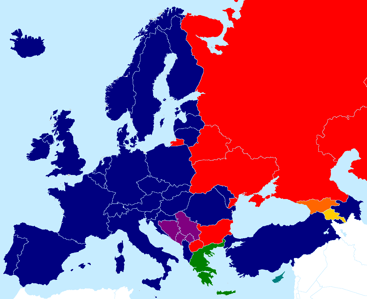 Map of Europe showing the type of script(s) used by the national language(s) in each country. English (en): Alphabets in Europe Greek Greek & Latin Latin Latin & Cyrillic Cyrillic Georgian Armenian